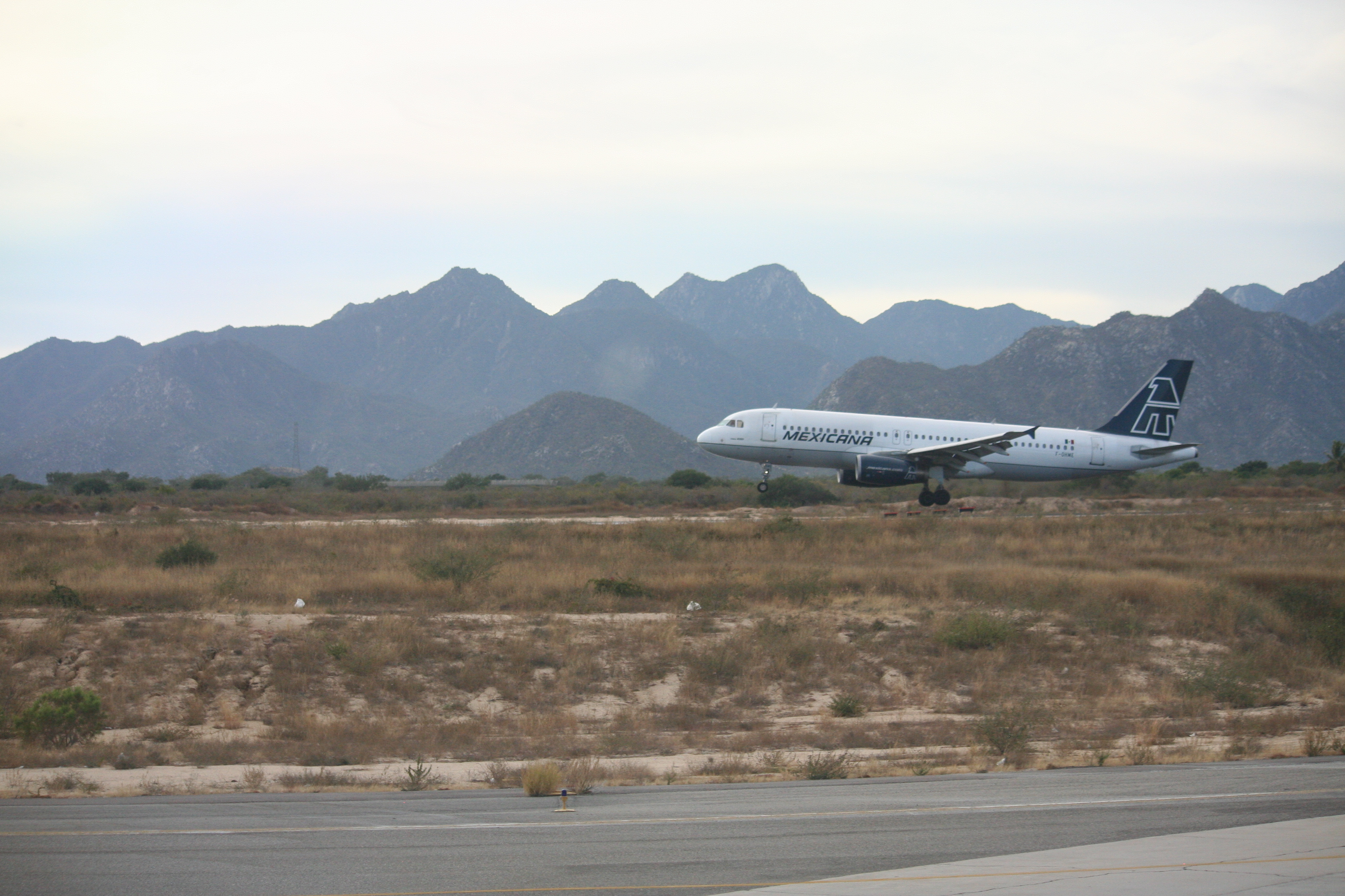 A320 of MXA (F-OHME) Landing at SJD (MMSD).